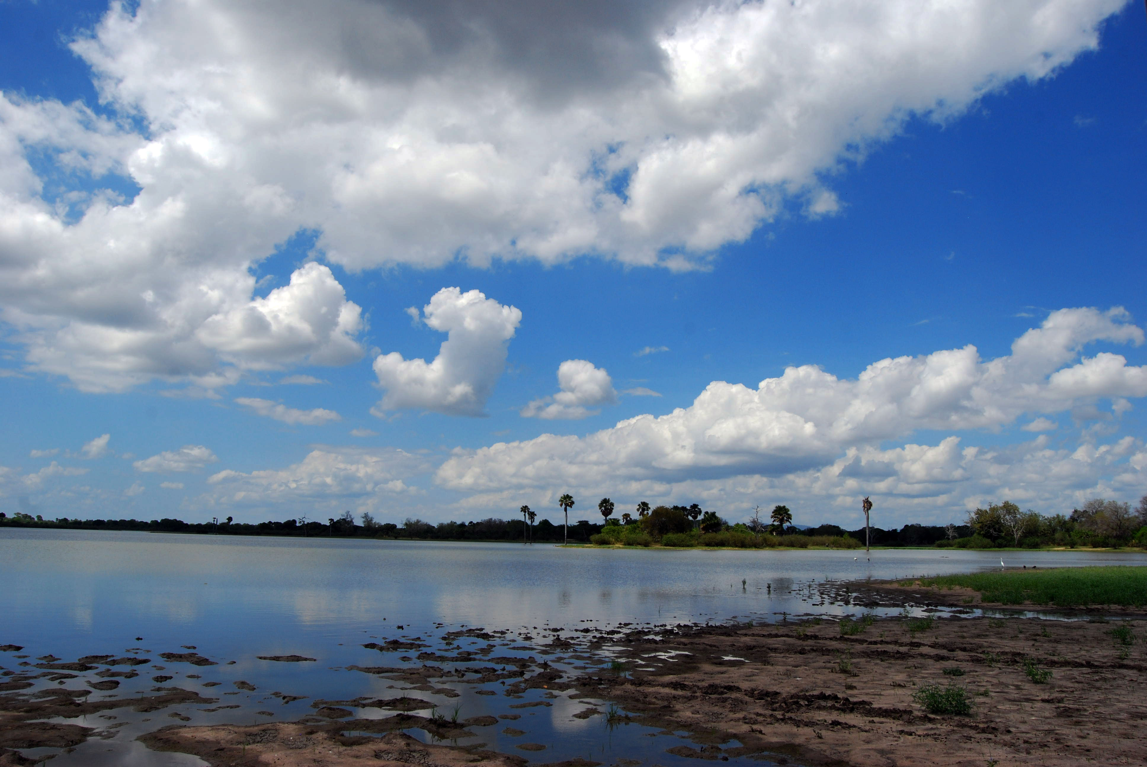 Lake Manze, Selous Game Reserve, Tanzania